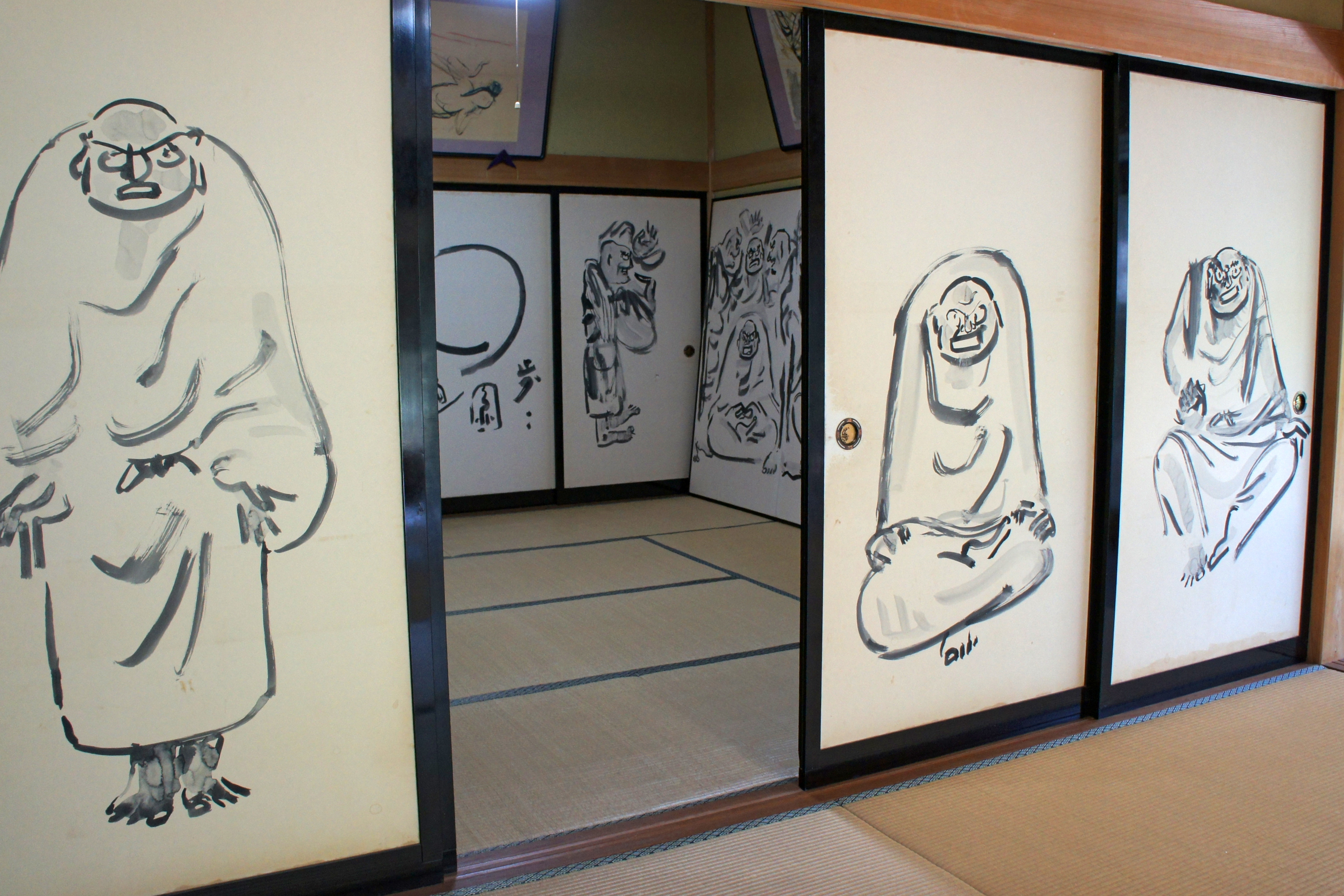 Genchuji in Tottori, Tottori prefecture, Japan.